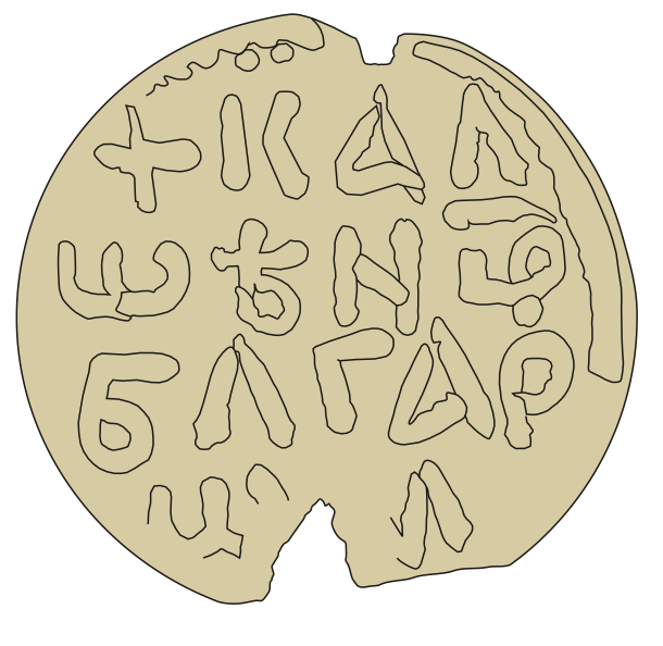 Leaden seal of tsar Kaloyan. Inscription in bulgarian: "+Kaloyan Tsar of the Bulgarians". The original is stored in in the National Archaeological Museum in Sofia. Въз основа на снимка в "История на България. Том 3. Втора българска държава", Издателство на Българската академия на науките, София, 1982 г. (Based on the picture to "History of Bulgaria. Tomе 3. Second Bulgarian Empire", Publishing the Bulgarian Academy of Sciences, Sofia, 1982.) [1]